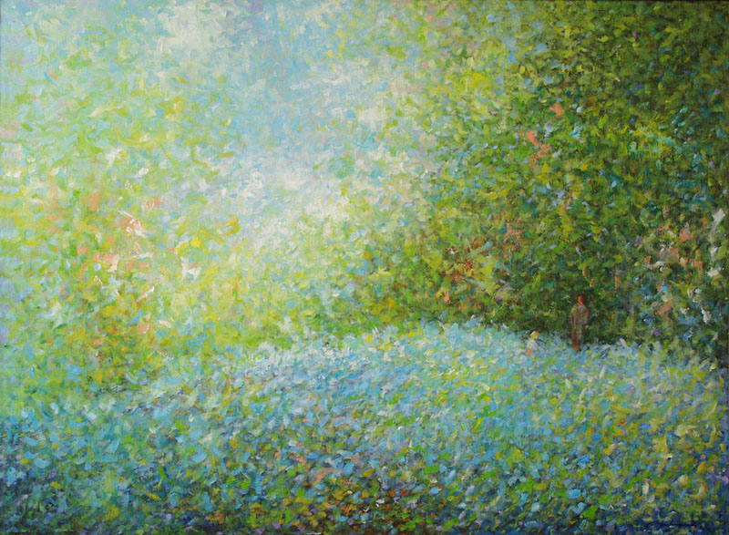 Impresionizam, ulje na platnu, slikar Krunoslav Martinović